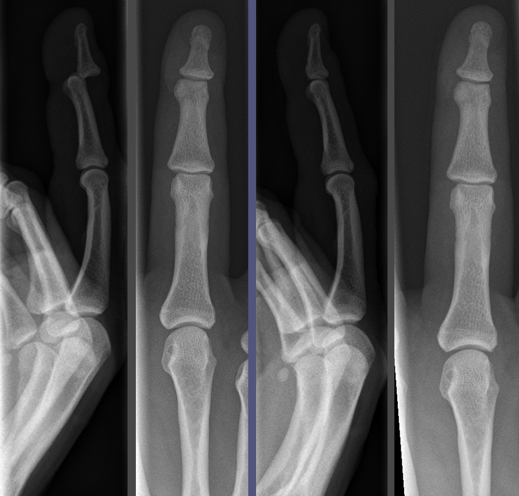 Joint dislocation in the DIP of the third finger before (left images) and after (right images) reduction. Note that the dislocation can hardly be seen in the ap-projection (second image from left).